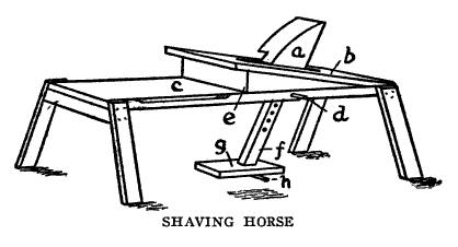 19th century knowledge carpentry and woodworking shaving horse